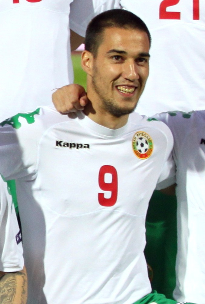 Ivelin Popov